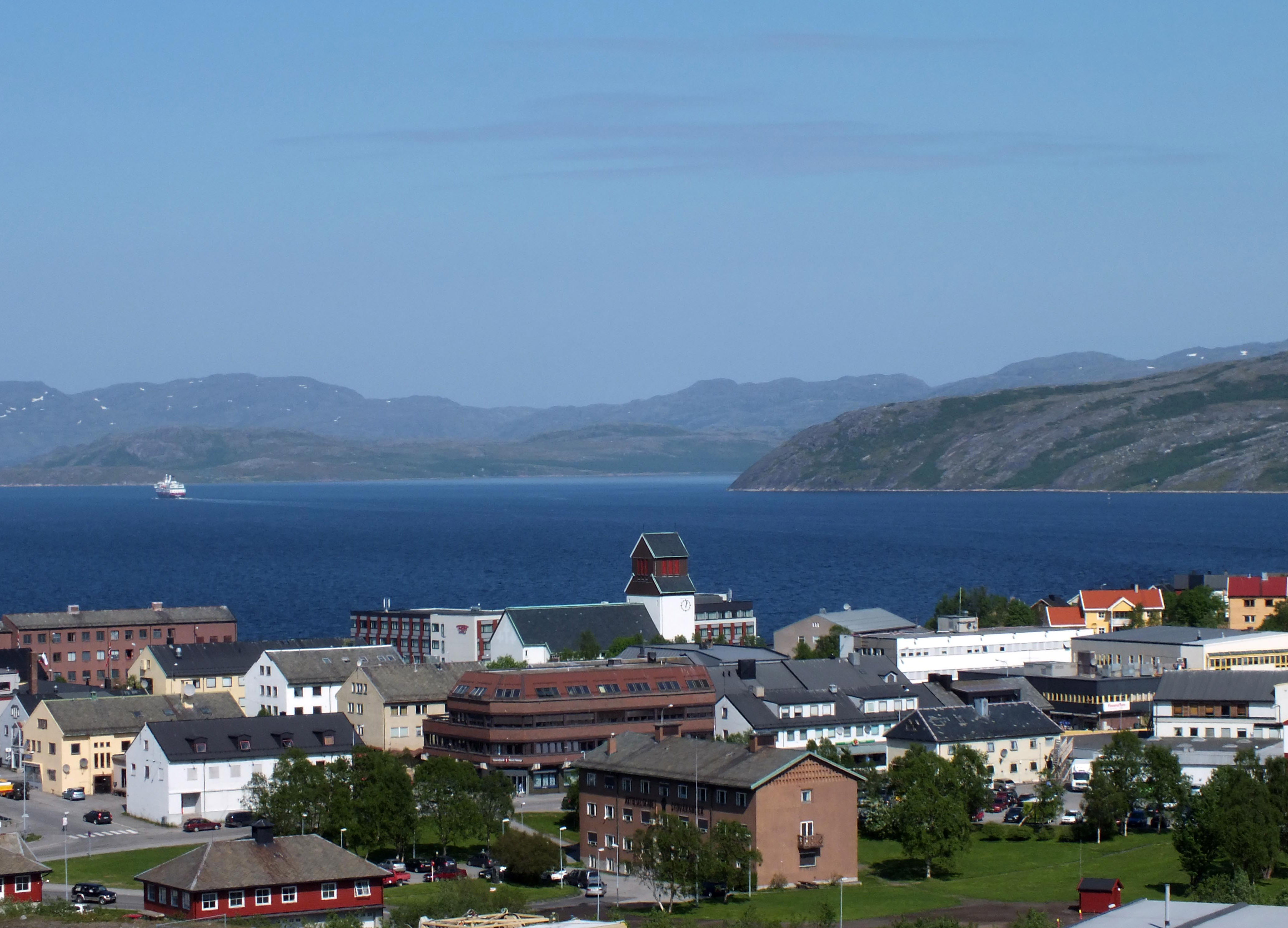 View of Kirkenes, 2013